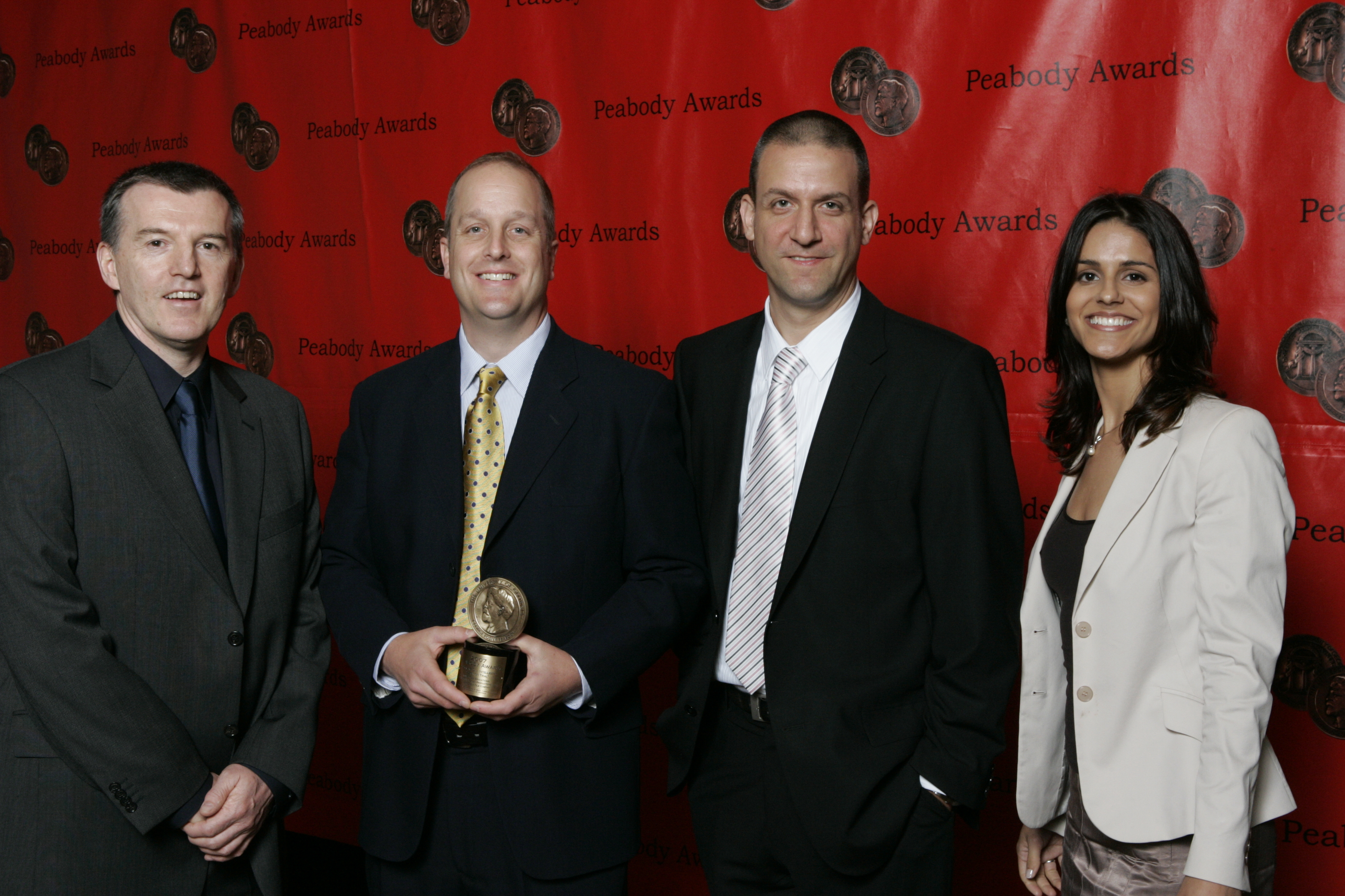 Gary Johnstone, Joe McMaster, Jonathan Sahula, and Anna Lee Strachan, 67th Annual Peabody Awards Luncheon Waldorf=Astoria Hotel New York, NY USA June 16, 2008